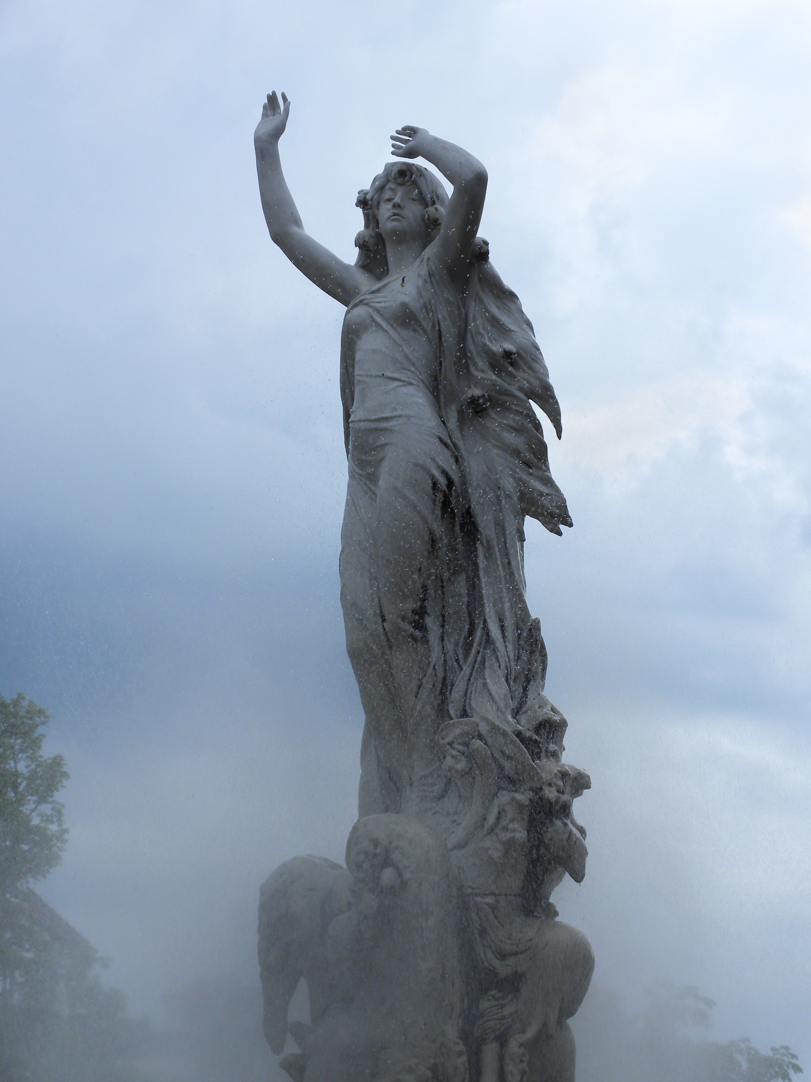 Kurpark in Baden, Lower Austria. Undine fountain.